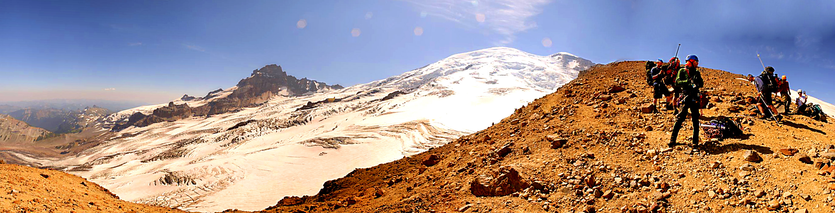 The Emmons Glacier on Mount Rainier, taken from Camp Curtis on Steamboat Prow.